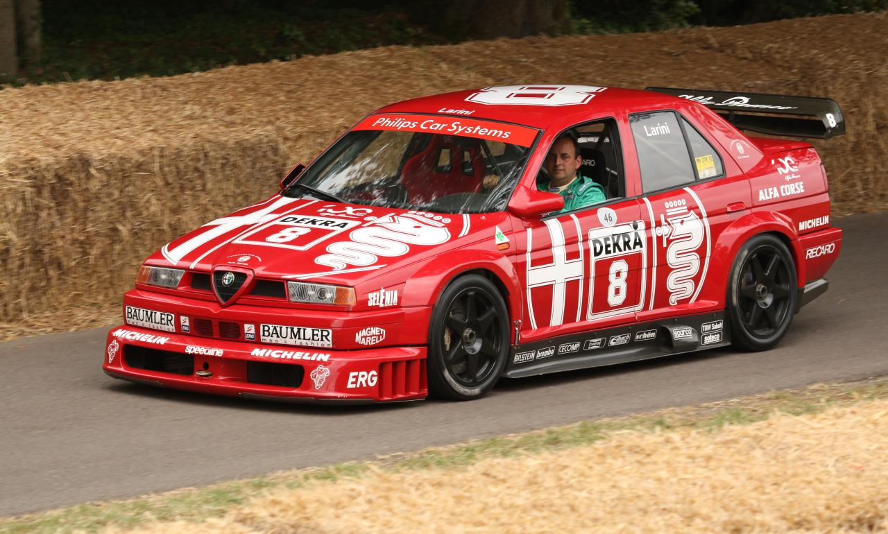 pictures from friday at fos